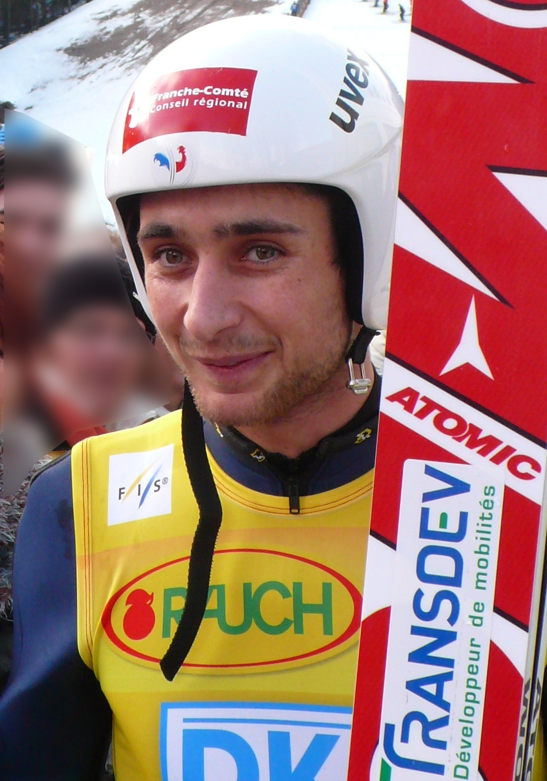 Jason Lamy-Chappuis, Schonach, 2011 january 8.